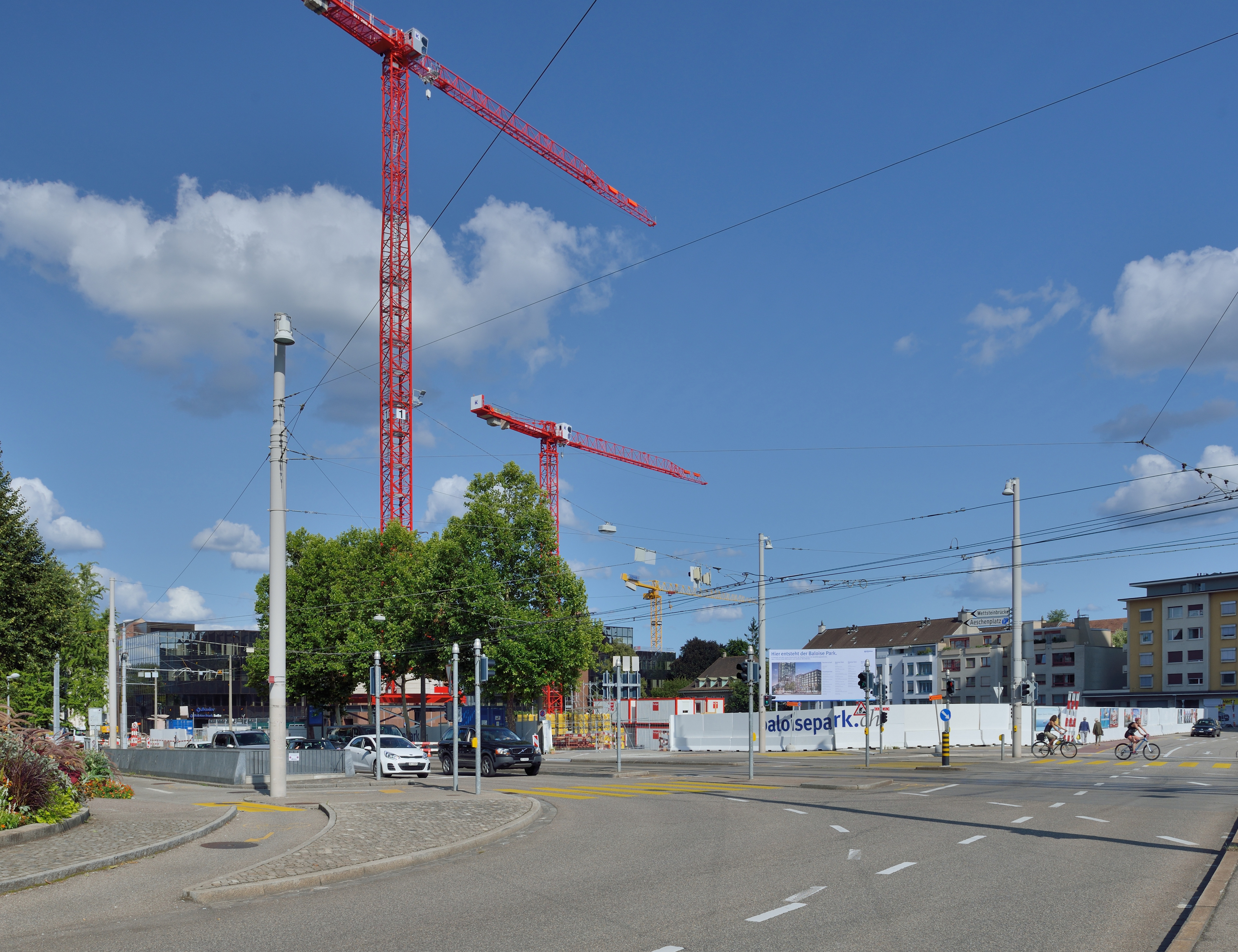 Basel: Baloise Tower, construction progress 2017